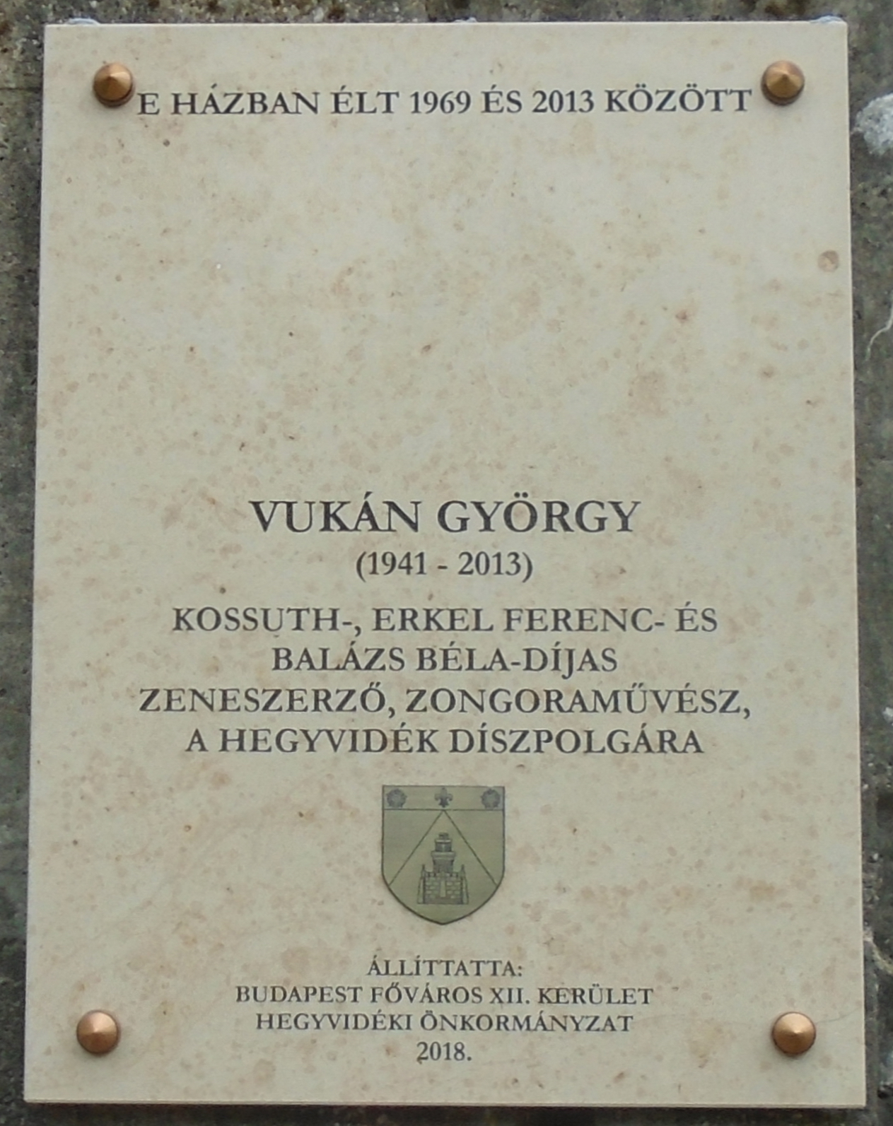 György Vukán's commemorative plaque in Budapest District XII.